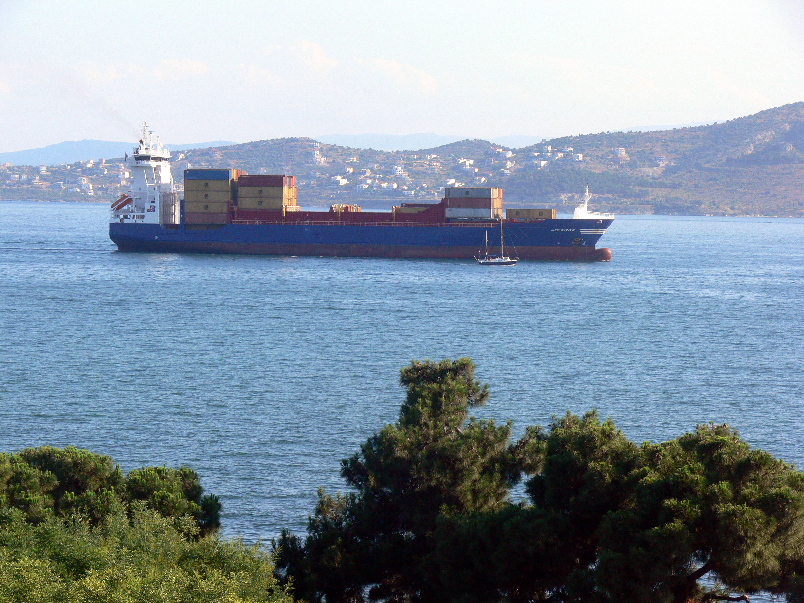 Volos. Containerschiff MSC Batave IMO Number: 9315018 Length: 149 m Beam: 22 m